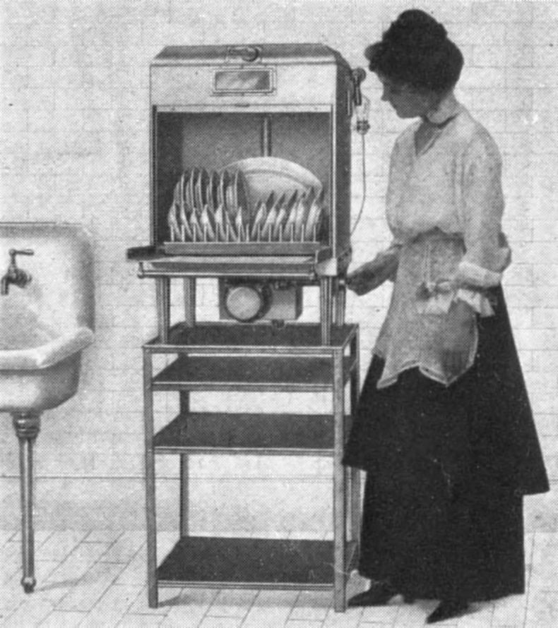 Electric dishwashing machine